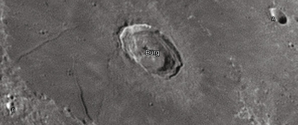 Burg lunar crater as seen from Earth with satellite craters labeled